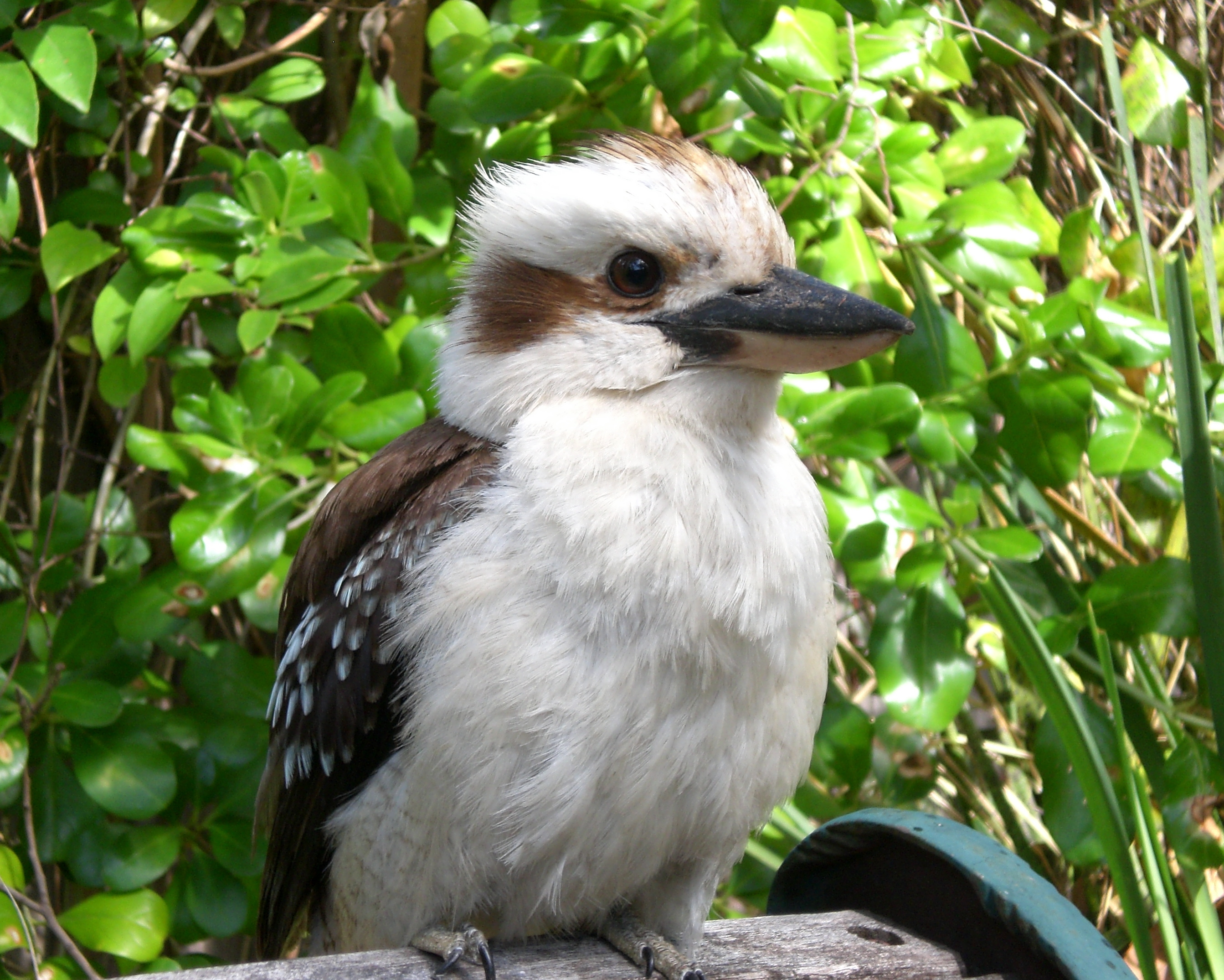 This image, from a digital compact camera, is of an immature specimen of Dacelo novaeguineae. It was seen in a garden and allowed the photographer to slink up next to it - no worries. It is an introduced species to the southwest of Australia, where this photgraph was taken.